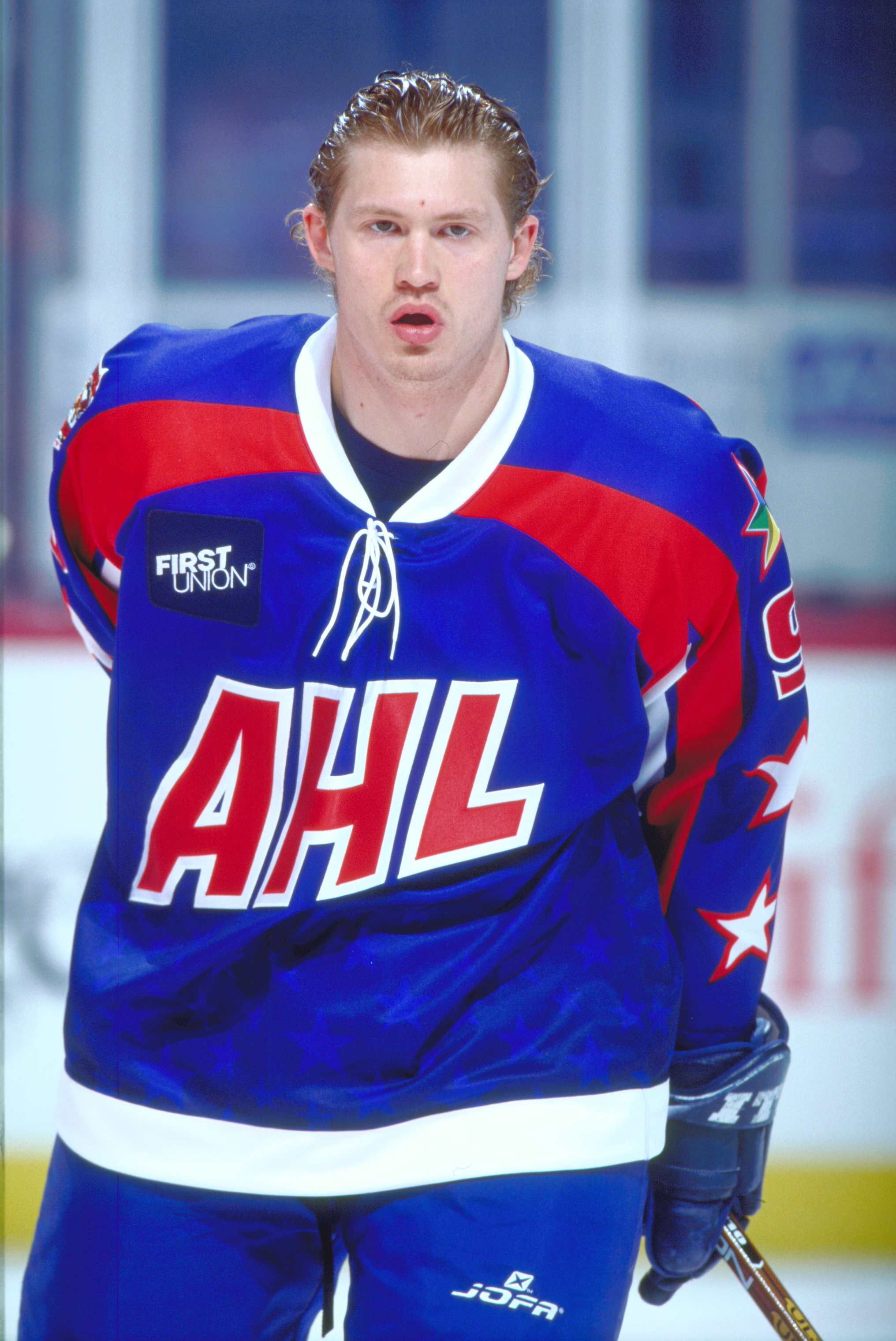 hhof0325